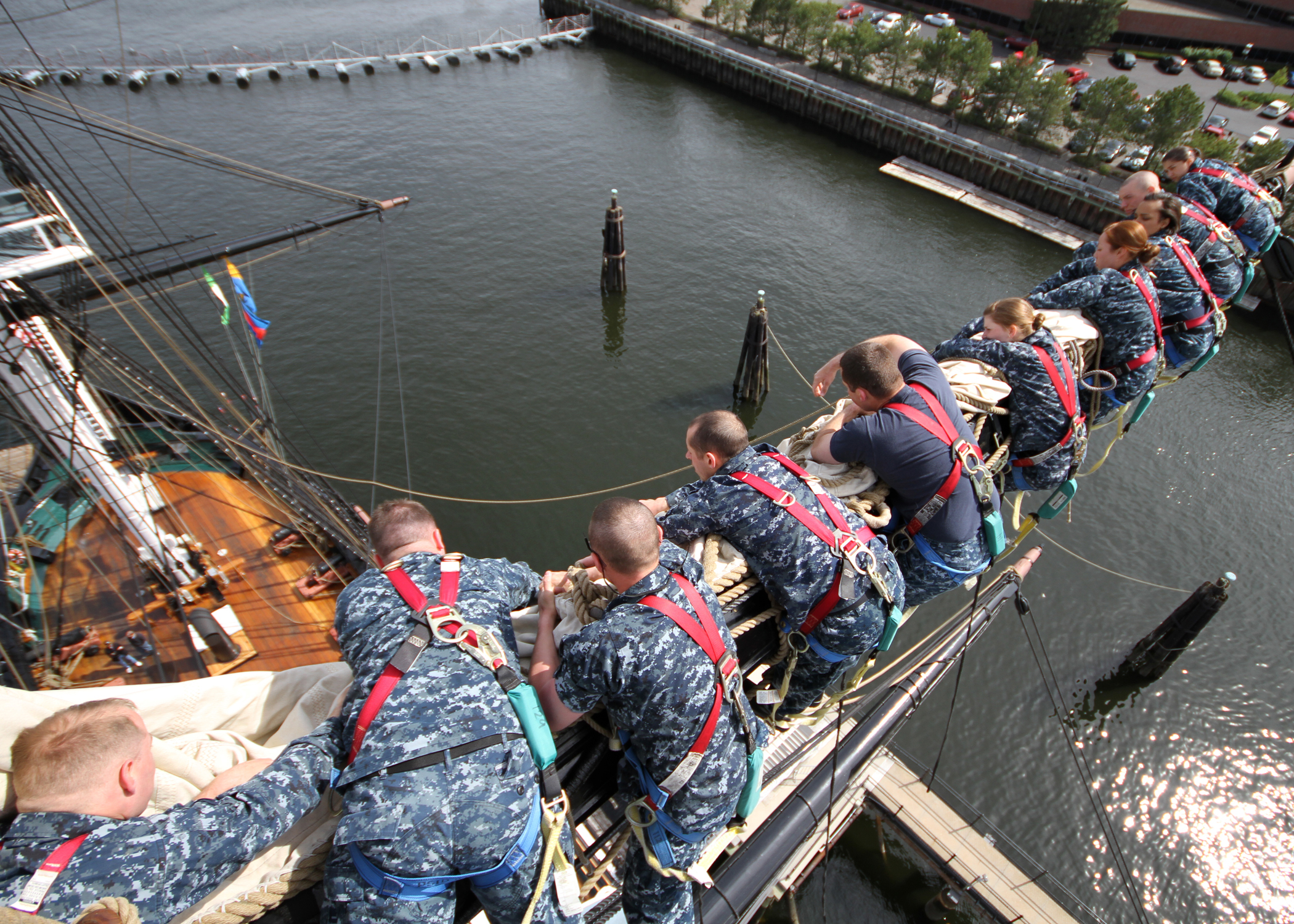 CHARLESTOWN, Mass. (April 30, 2012) Sailors assigned to USS Constitution furl the topsail on the main mast of the ship. Constitution Sailors routinely work to improve seamanship skills in preparation for possibly sailing the ship for the bicentennial of the War of 1812. (U.S. Navy photo by Sonar Technician 2nd Class Thomas Rooney/Released) 120430-N-HN195-257 Join the conversation navylive.dodlive.mil